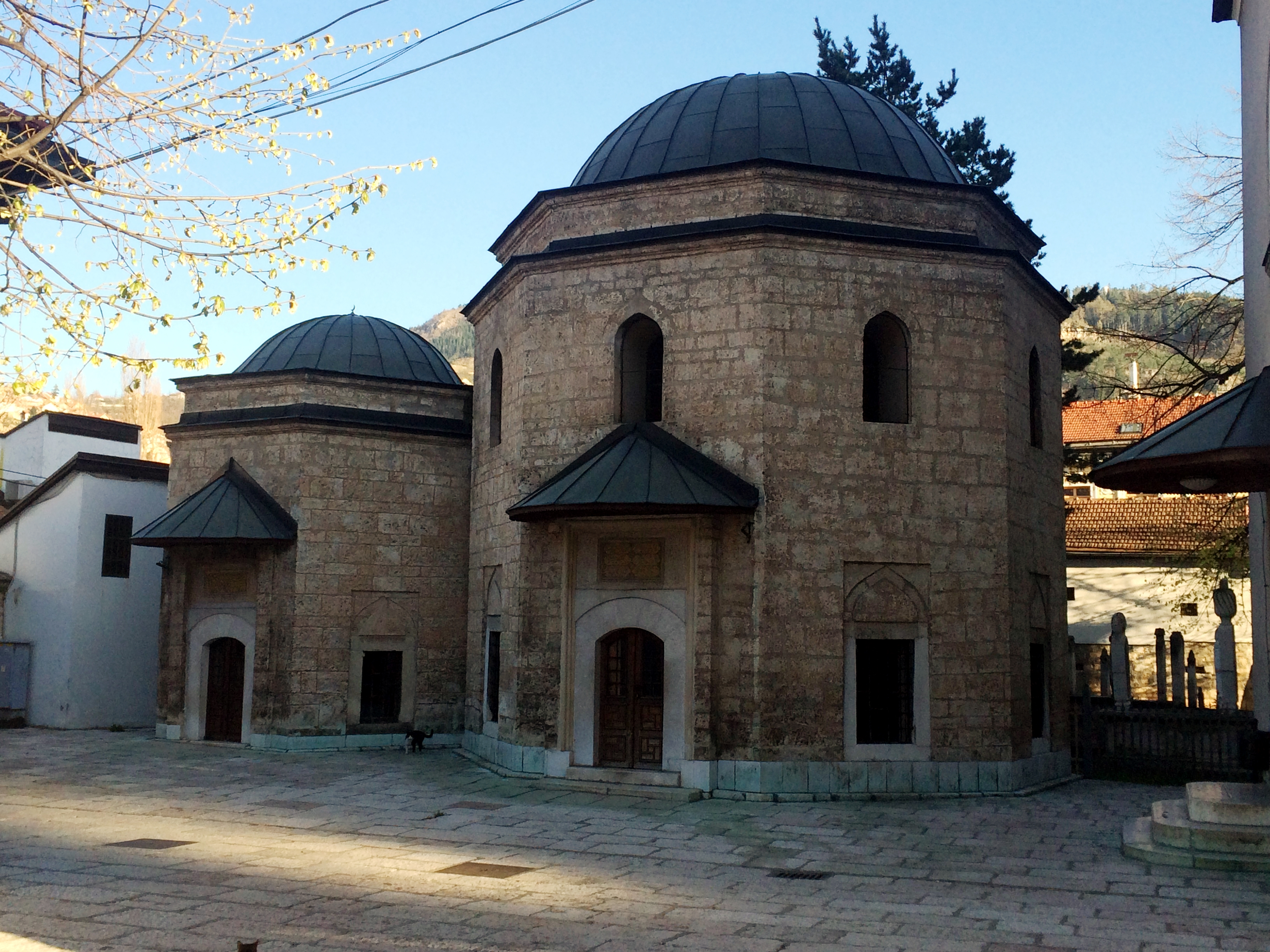 The Gazi Husrev Bey Mosque is part of the donations (waqf) of this governor, in Old Sarajevo, Bosnia. This is his mausoleum, side-by-side with the mosque.